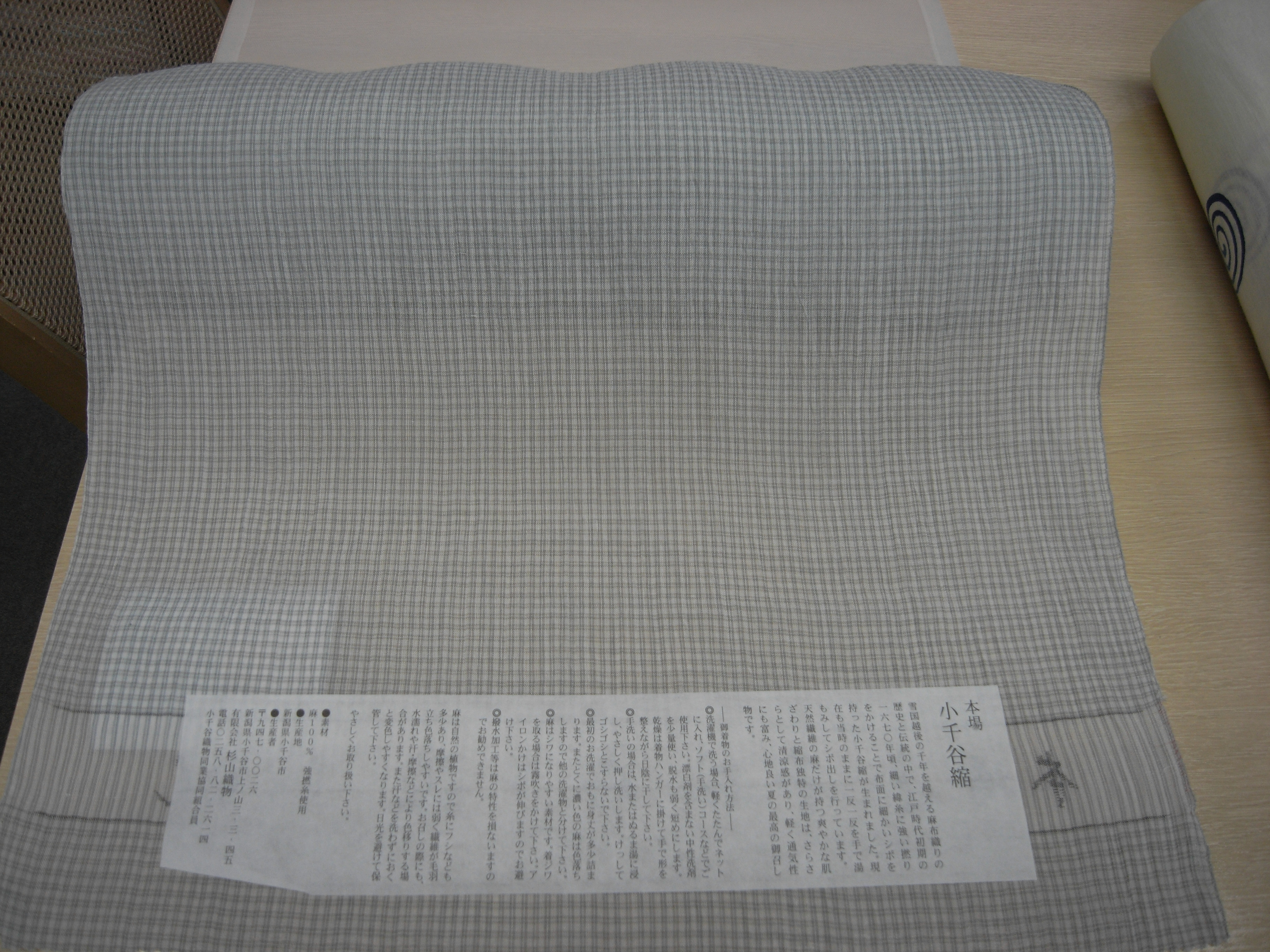 小千谷縮（Ojiya-Chijimi）fabric. It is made of Ramie fibers, woven in the city of Ojiya for centuries.